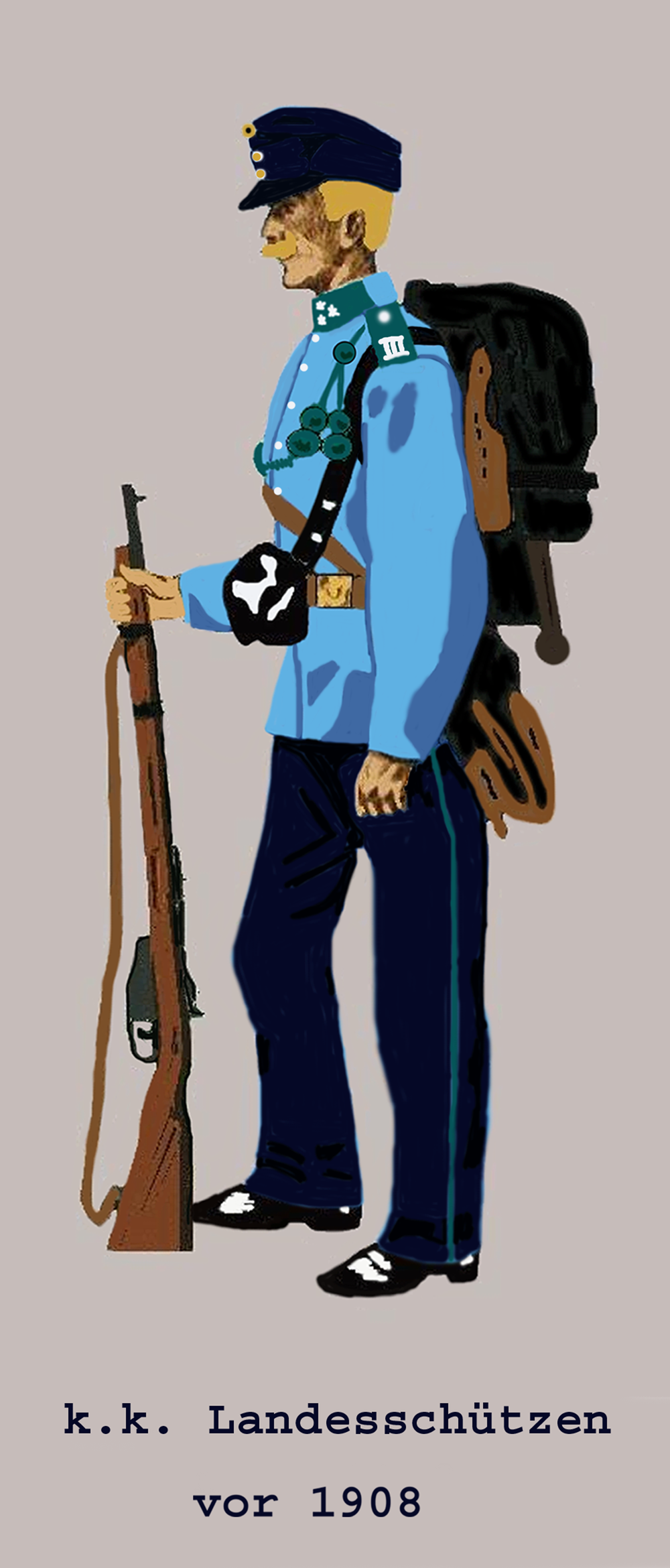 k.k. Austrian Landwehr Infantry. Battle dress before 1908